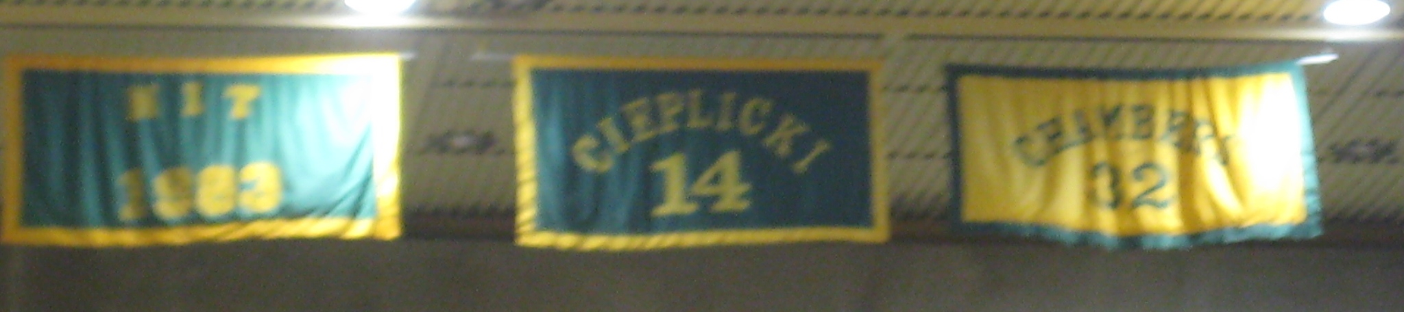 Some of the hanging retired jerseys at The College of William & Mary in Williamsburg, Virginia, USA.